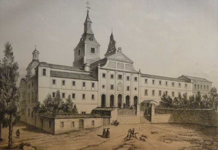 Antiguo Convento de Recoletos, Madrid. Actual sede de la Biblioteca Nacional de España.